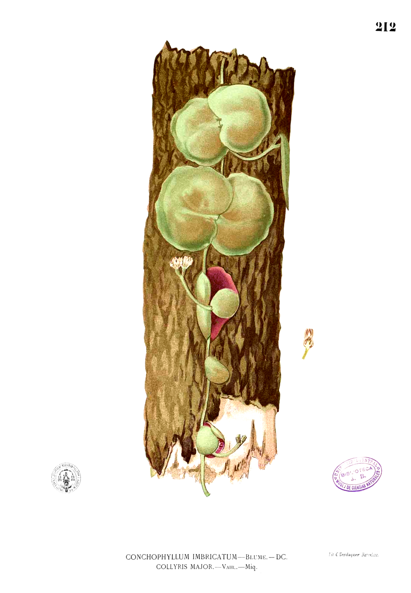 Plate from book